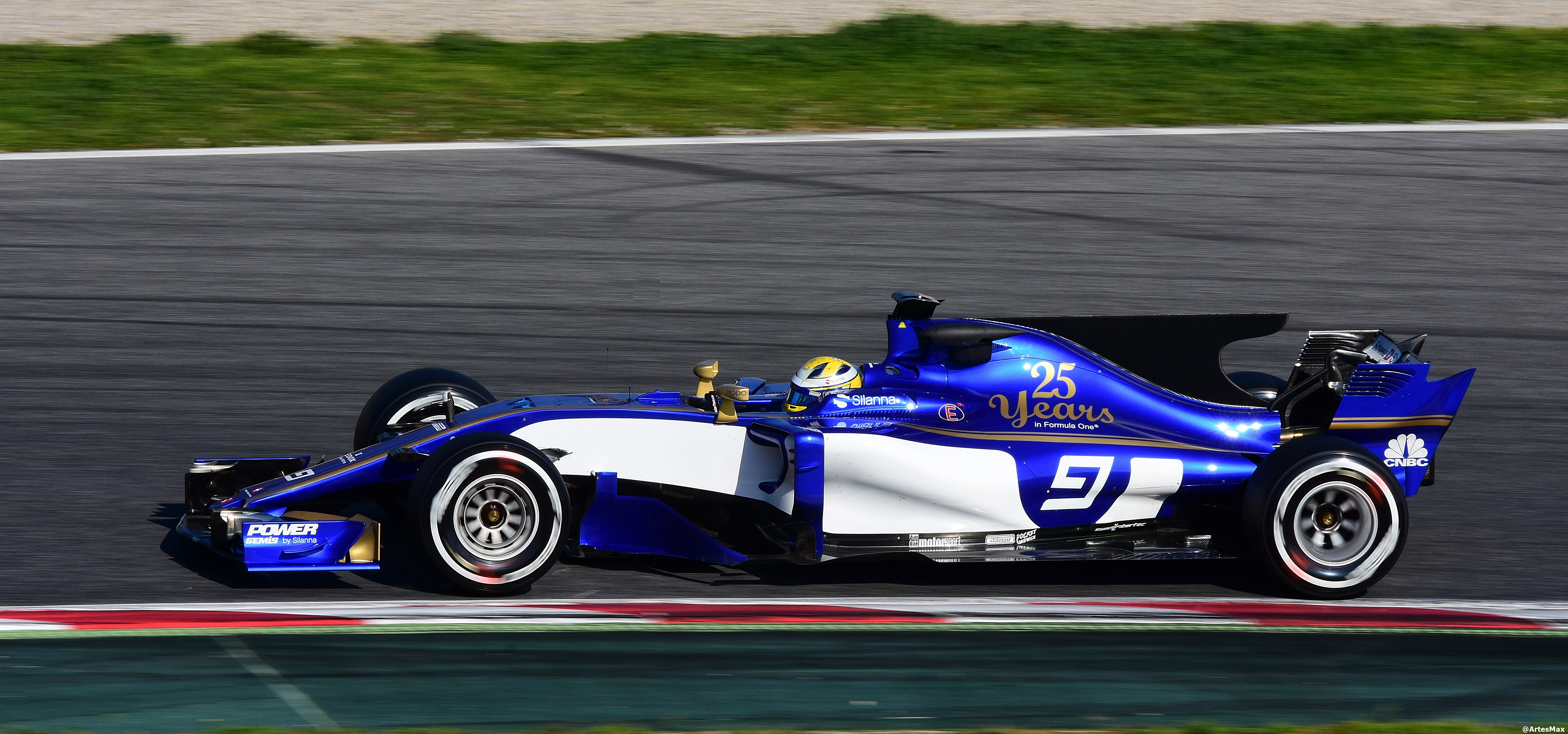 Marcus Ericsson testing the Sauber C36 at Barcelona.